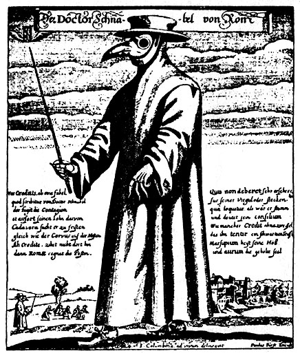 "Doktor Schnabel von Rom" ("Doctor Beak from Rome"), engraving, Rome 1656. Physician attire for protection from the Bubonic plague or Black death.